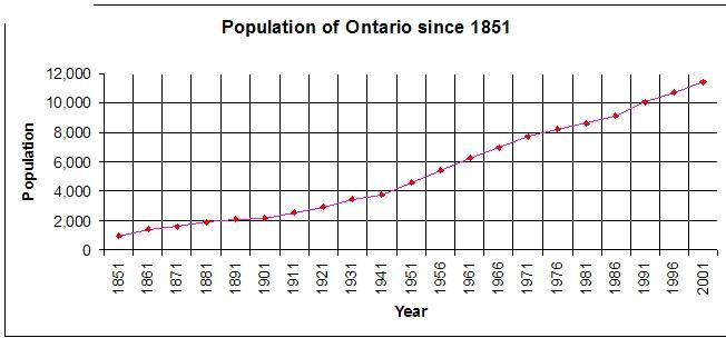 Population of Ontario from 1851-2001